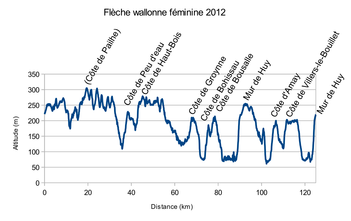 Profile of the Flèche wallonne féminine 2012.